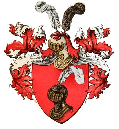 Coat of arms of the von Fiegen or Fiege noble family of Germany